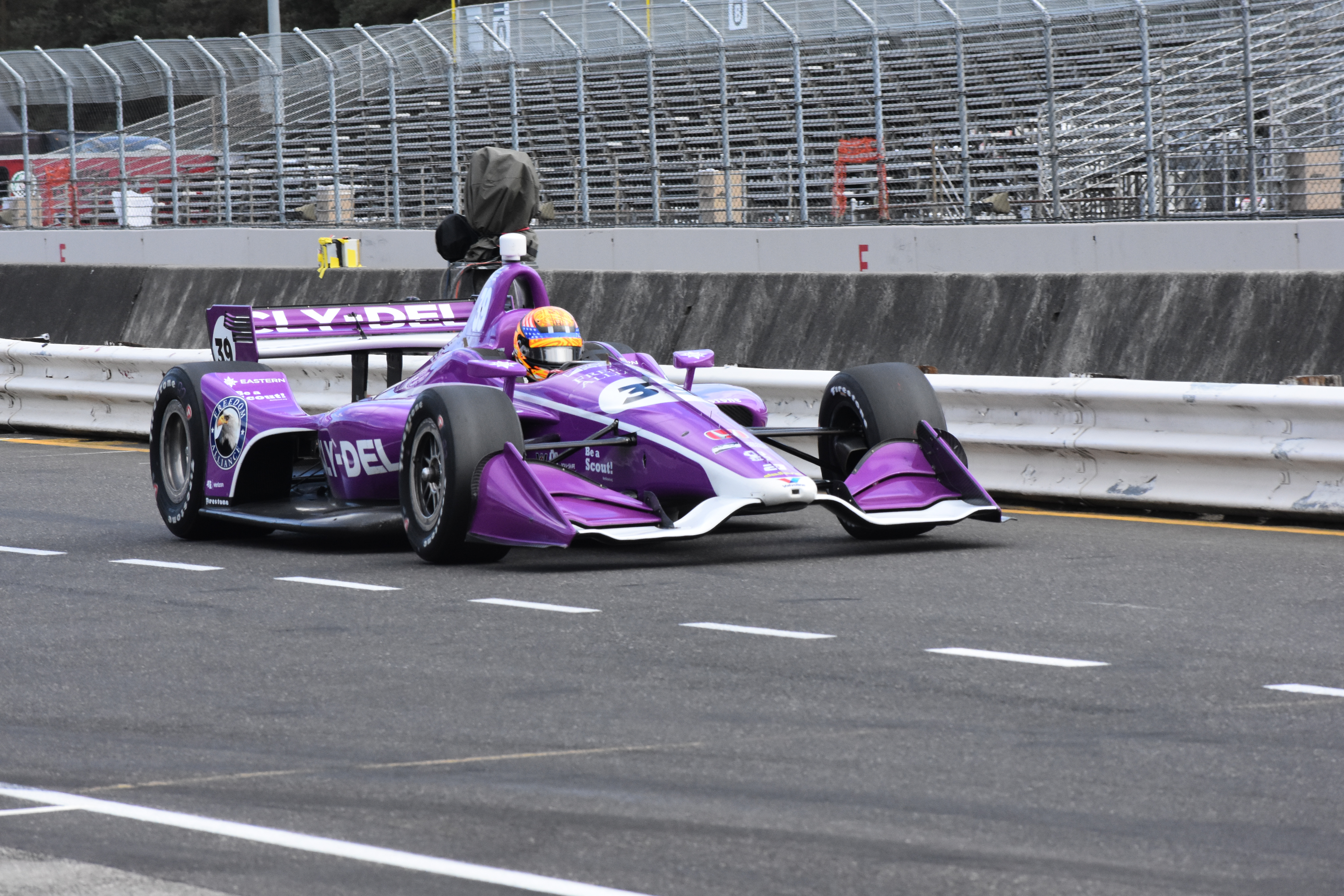 Ferrucci exiting the pits during testing at Portland in 2018